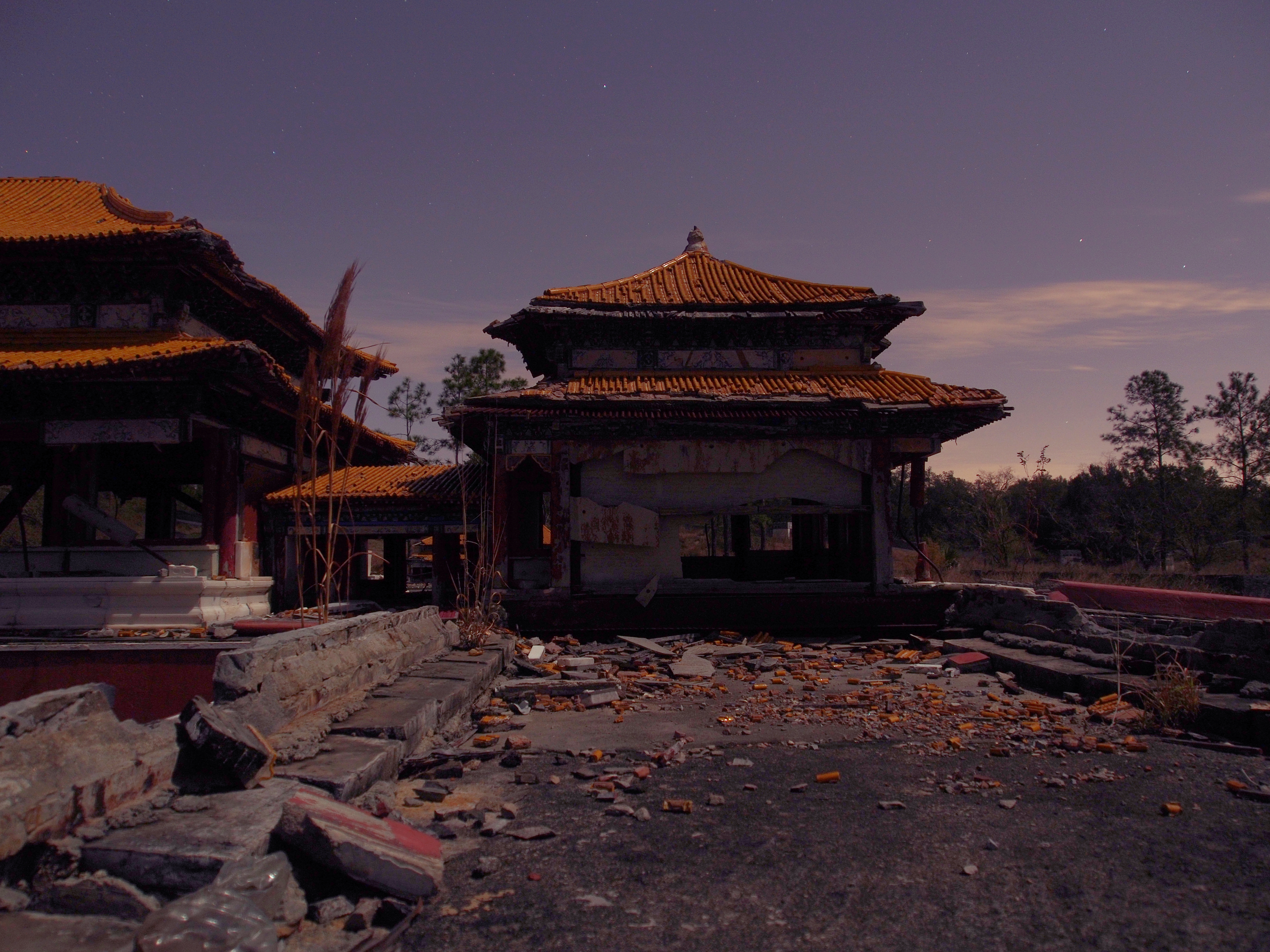 On a recent family trip to Orlando, I noticed that we were staying right around the corner from the abandoned theme park Splendid China. How could I pass up an opportunity to head in for some photos?! The park was built in 1993 at a cost of ~$100m, and closed 10 years later (2003). So here is what it looks like as it slowly rots in the Florida sun almost 10 years later... my blog